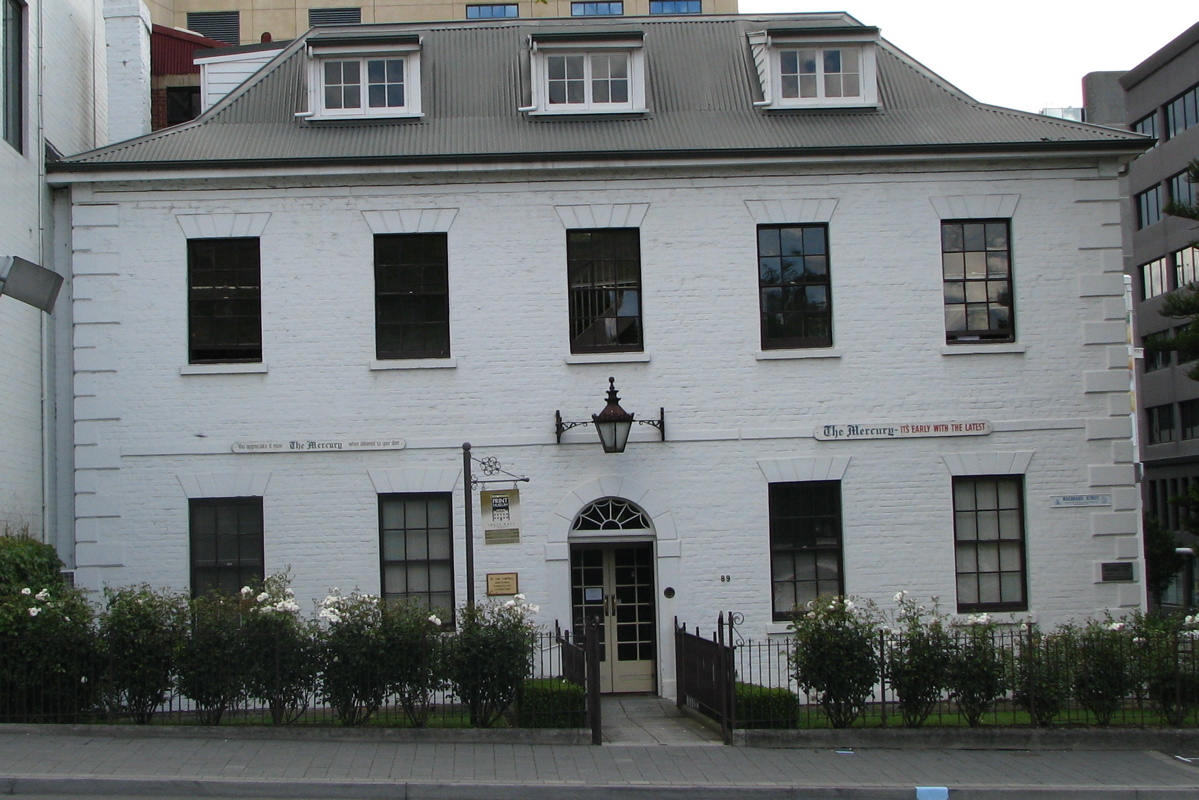 The Mercury, Hobart. Ingle Hall, built in the early 19th century and with various uses over time.[1].